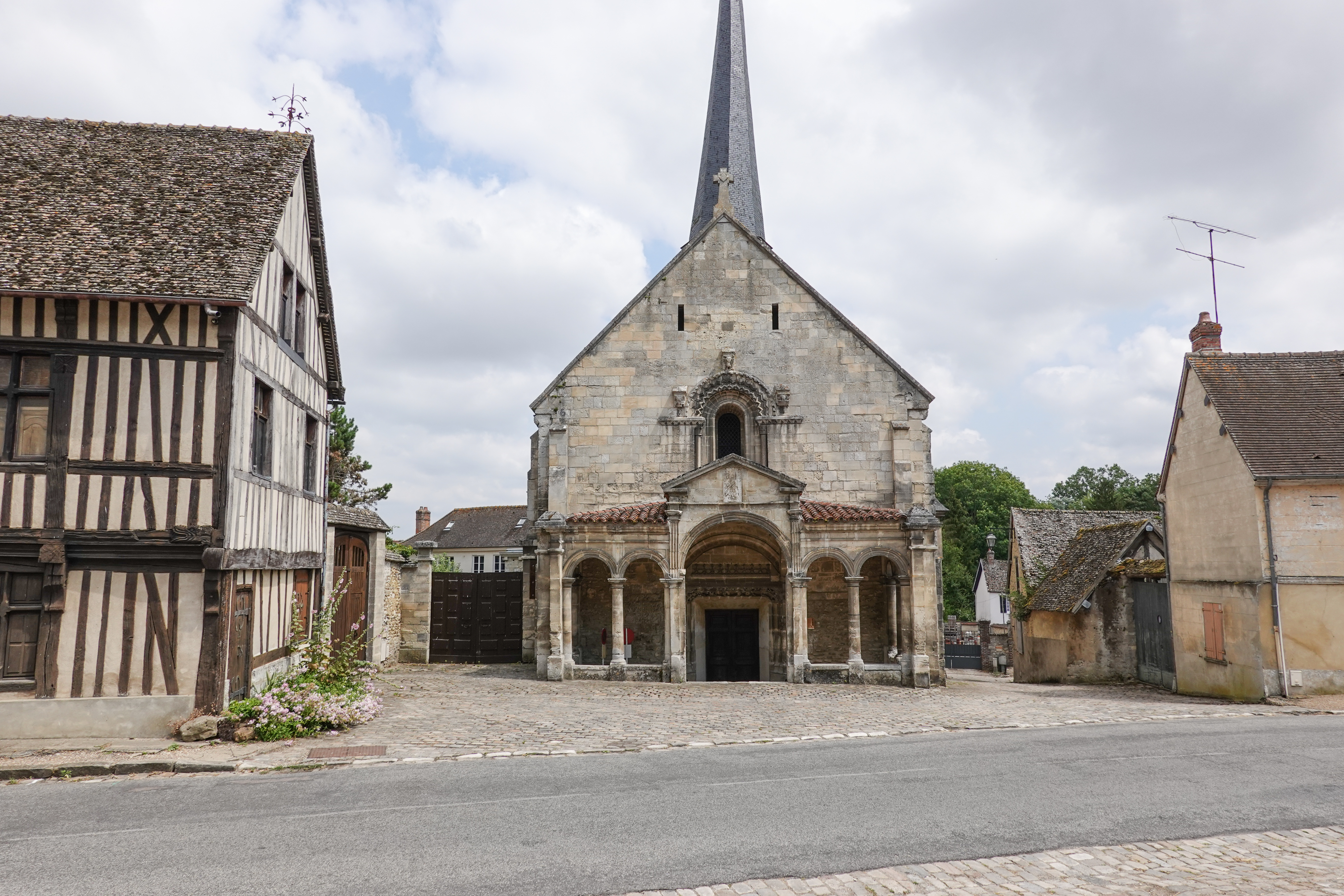 Église Saint-Jean-Baptiste de Dangu, Dangu, France